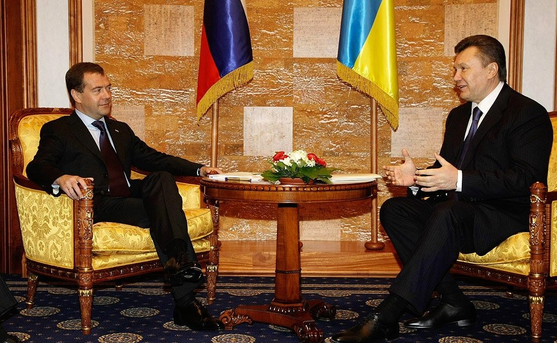 With Ukrainian President Viktor Yanukovich